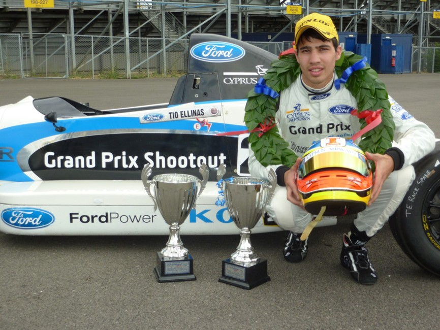 Tio Ellinas (Cyprus) poses after winning rounds 11 and 12 of the MSA Dunlop Formula Ford Championship of Great Britain from pole position with fastest lap in each race including a lap record.